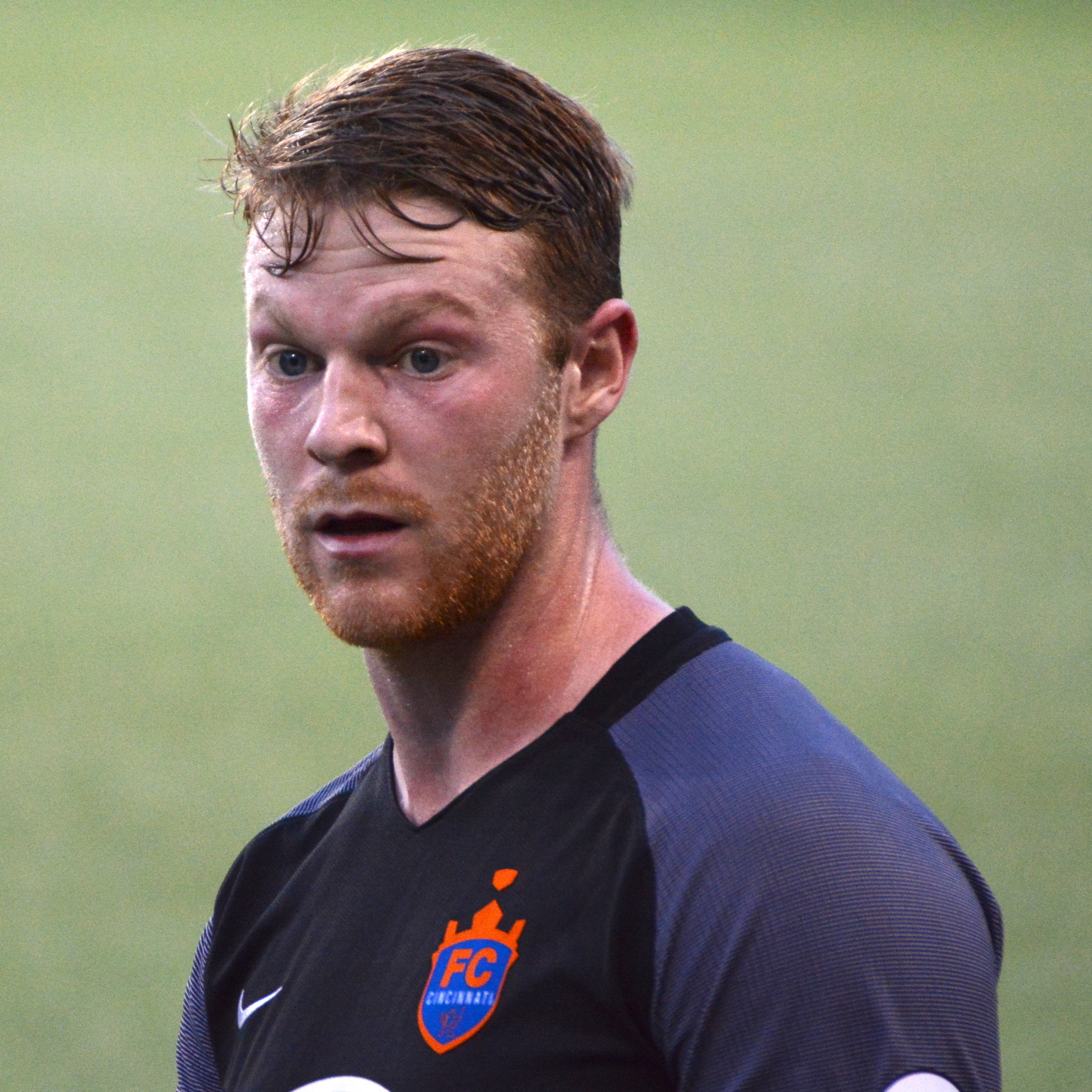 A portrait of Derek Luke, an American soccer defender, playing for FC Cincinnati. Photo was taken during a 2017 U.S. Open Cup Second Round match against NPSL side AFC Cleveland at Nippert Stadium in Cincinnati, Ohio on May 17, 2017.